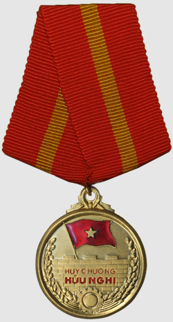 Vietnam Friendship Medal